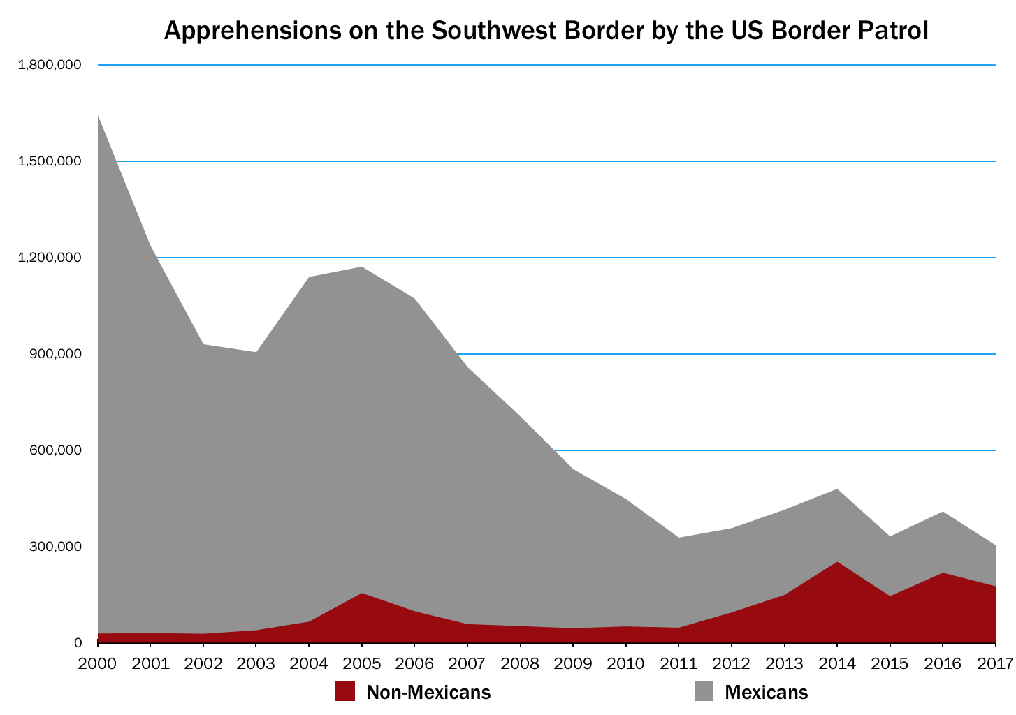 Chart illustrating the number of people apprehended by the US Border Patrol on the United States-Mexican border who are, and are not Mexican nationals. Data extracted from "U.S. Border Patrol Apprehensions From Mexico and Other Than Mexico (FY 2000 - FY 2017)" (